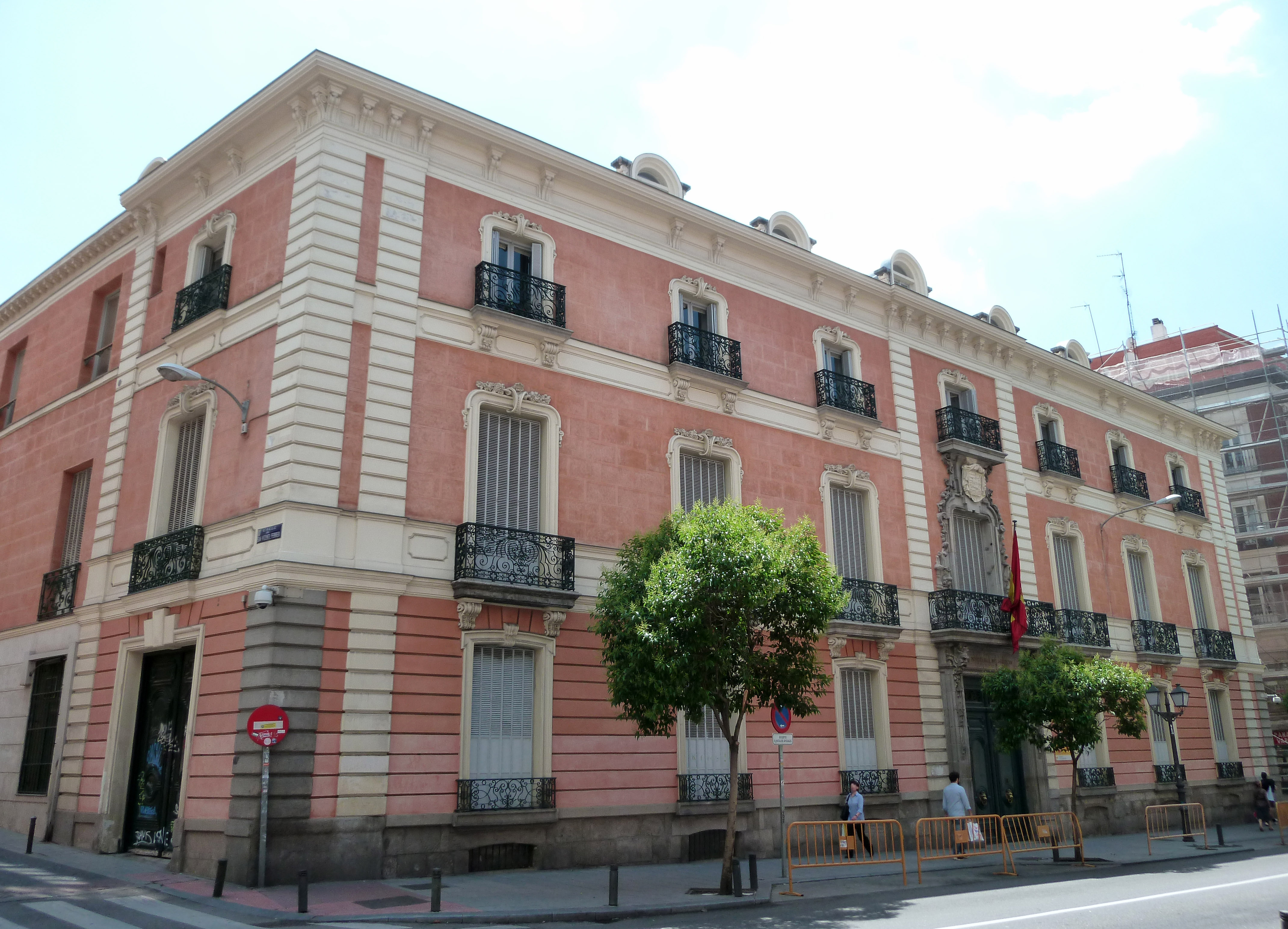 View of Parcent Palace in Madrid (Spain).